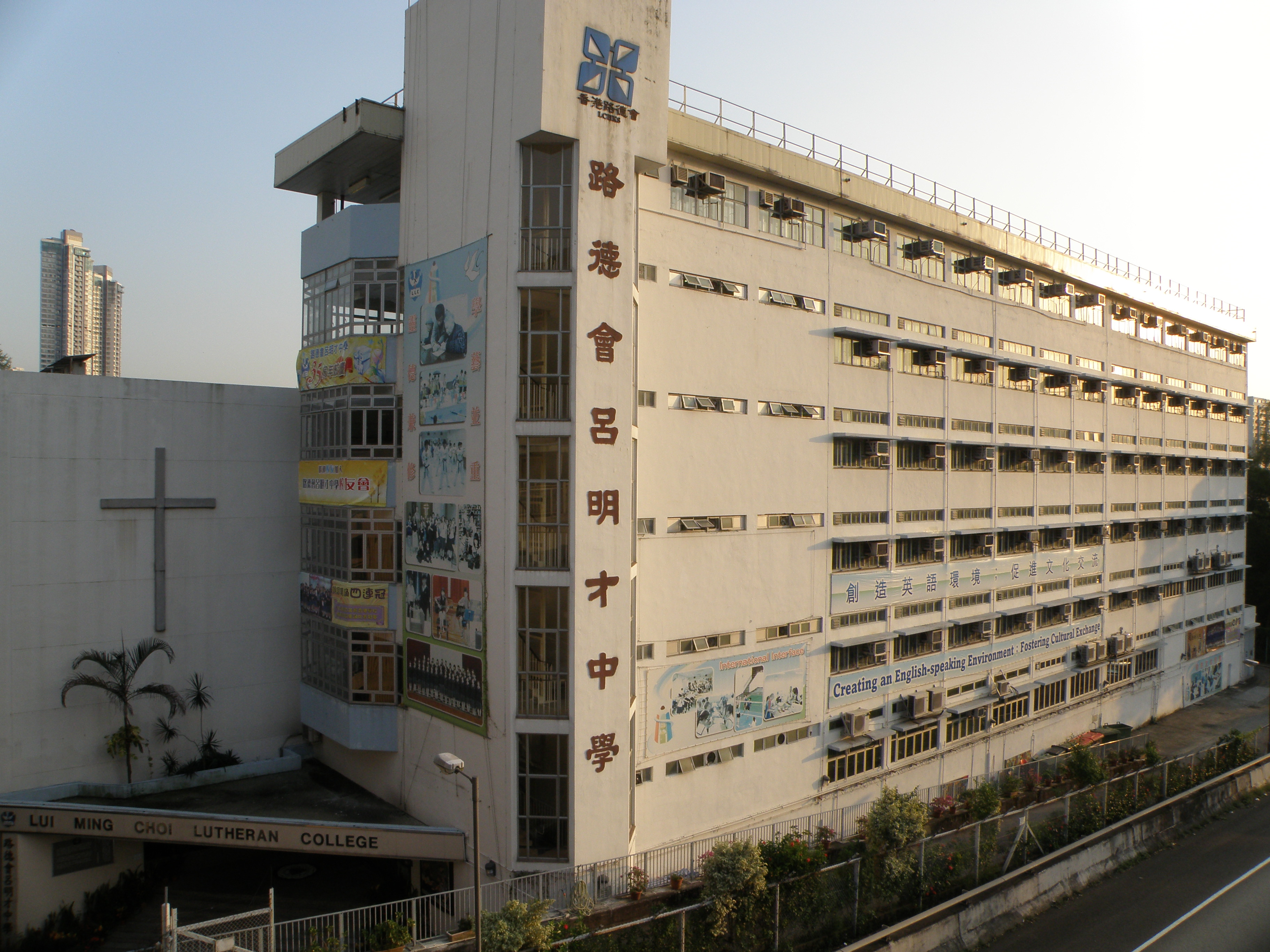 Lui Ming Choi Lutheran College in Kwai Chung, Hong Kong.